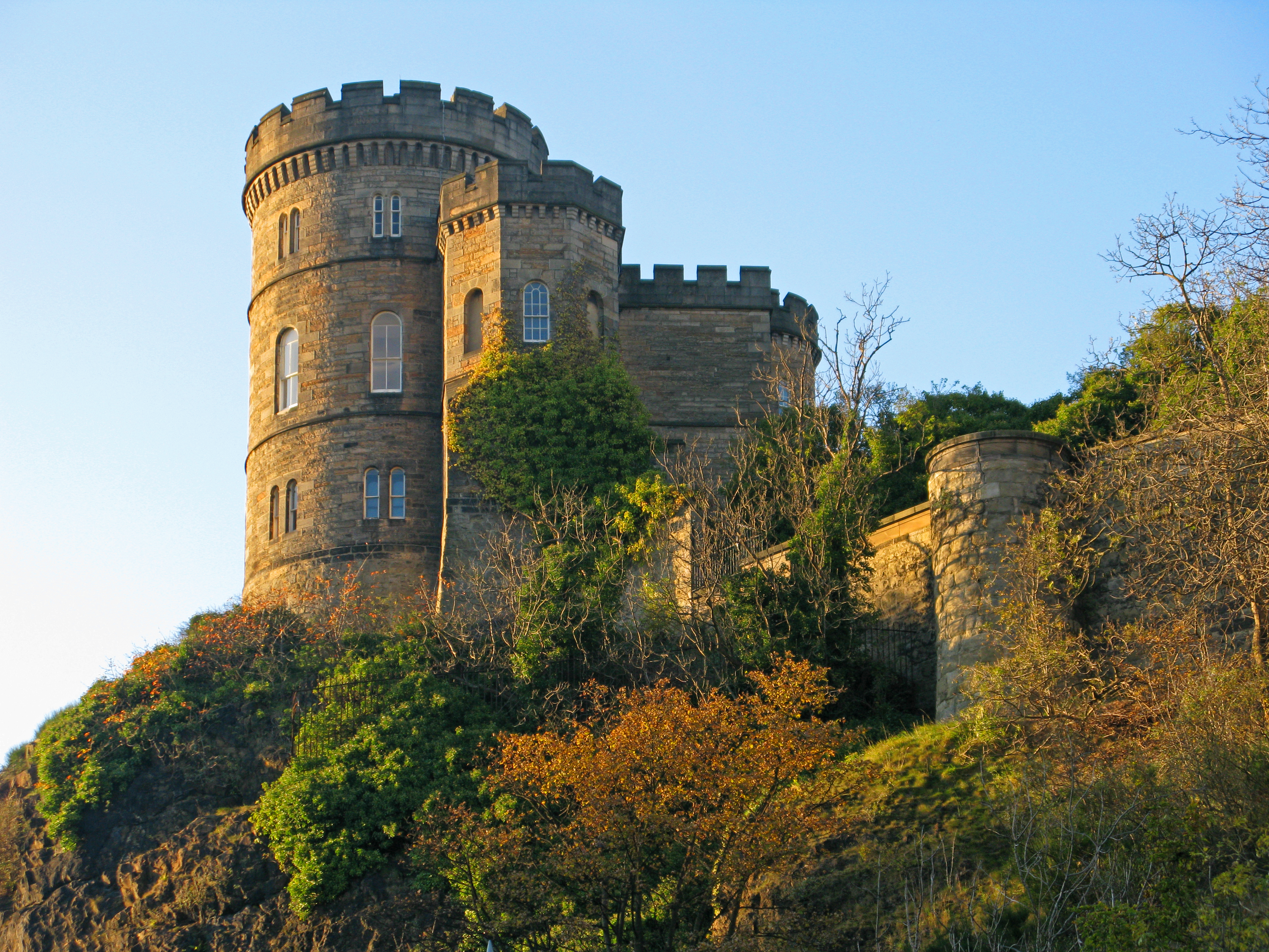 Calton Road 2